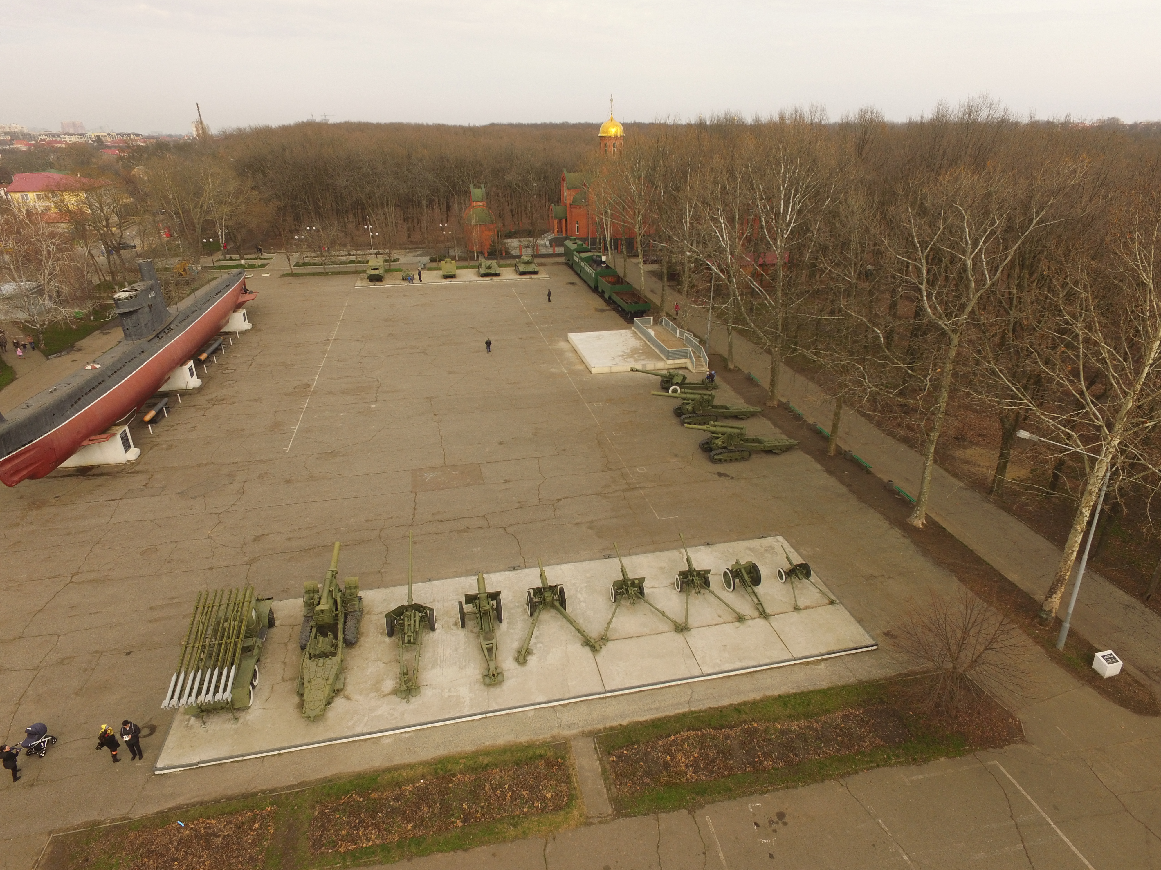 Heroic defence of Odessa memorial, aerial view